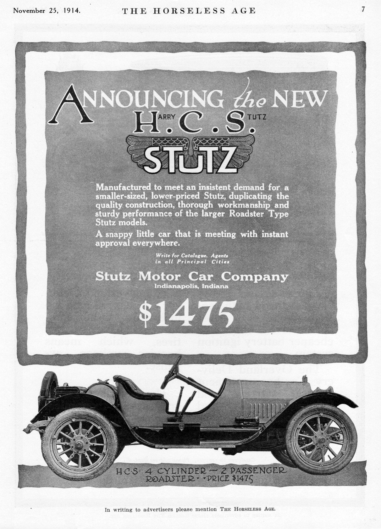 Stutz introduced the 4-cylinder H.C.S. Roadster model for 1915. It was intended to be a less-expensive alternative to the famous Bearcat. After Harry C. Stutz left Stutz Motor Car Co. in 1919 he began a new firm to build a new car named H.C.S. That make survived only from 1920 until 1925.